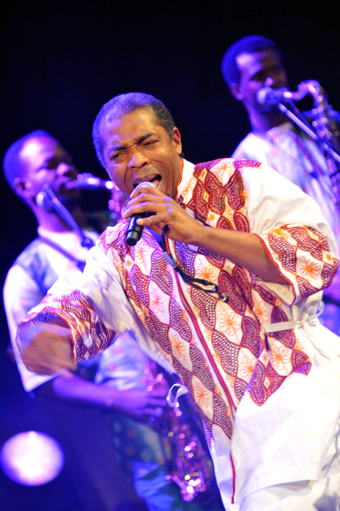 Nigerian showman Femi Kuti performing in Warszawa, Poland during CrosCultureFestival on September 25, 2011.